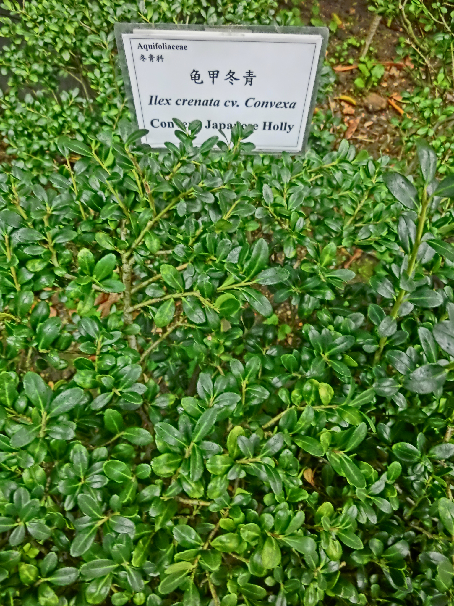 齒葉冬青, Hong Kong Park, Central, Hong Kong